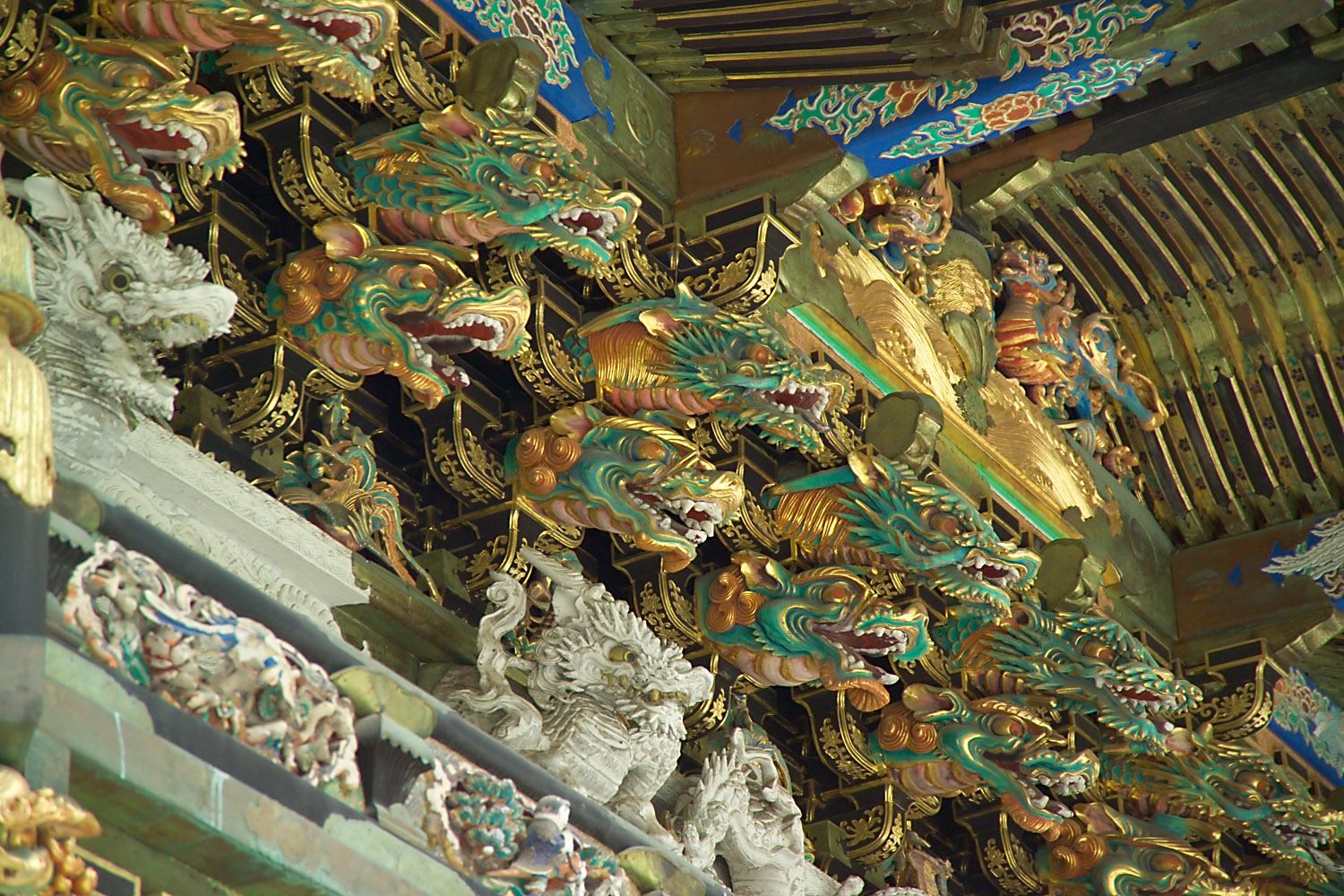 This lavish decoration is on the Yomeimon, the famous gate at Nikko Toshogu, Japan. I took the photo and contribute the file to the public domain. However, people and institutions may retain rights to images in it.